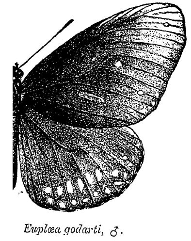 Derived from File:Euploea_core_godarti_ctb.png. Require just a single side for the page